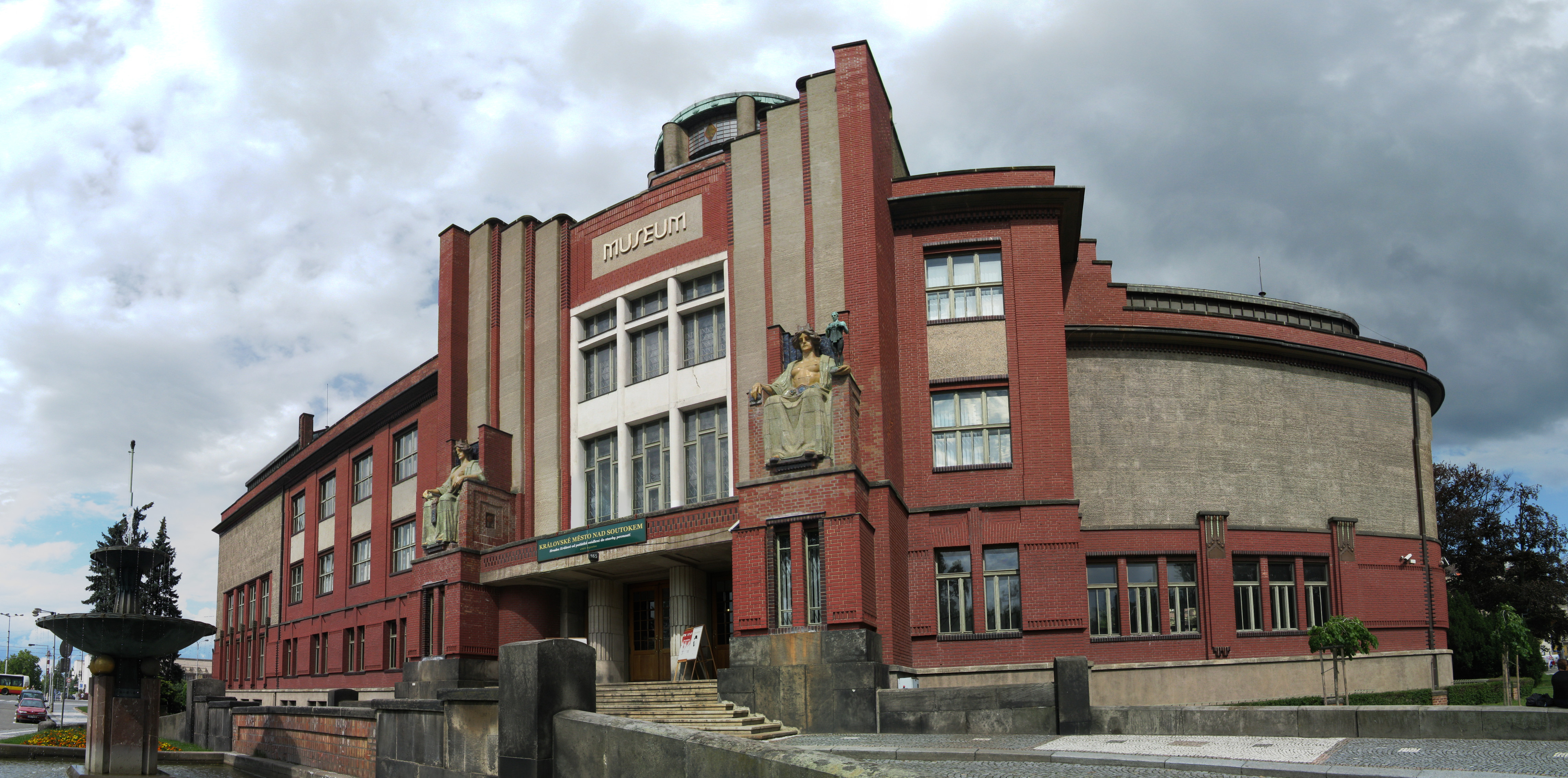 Museum of eastern Bohemia in Hradec Králové